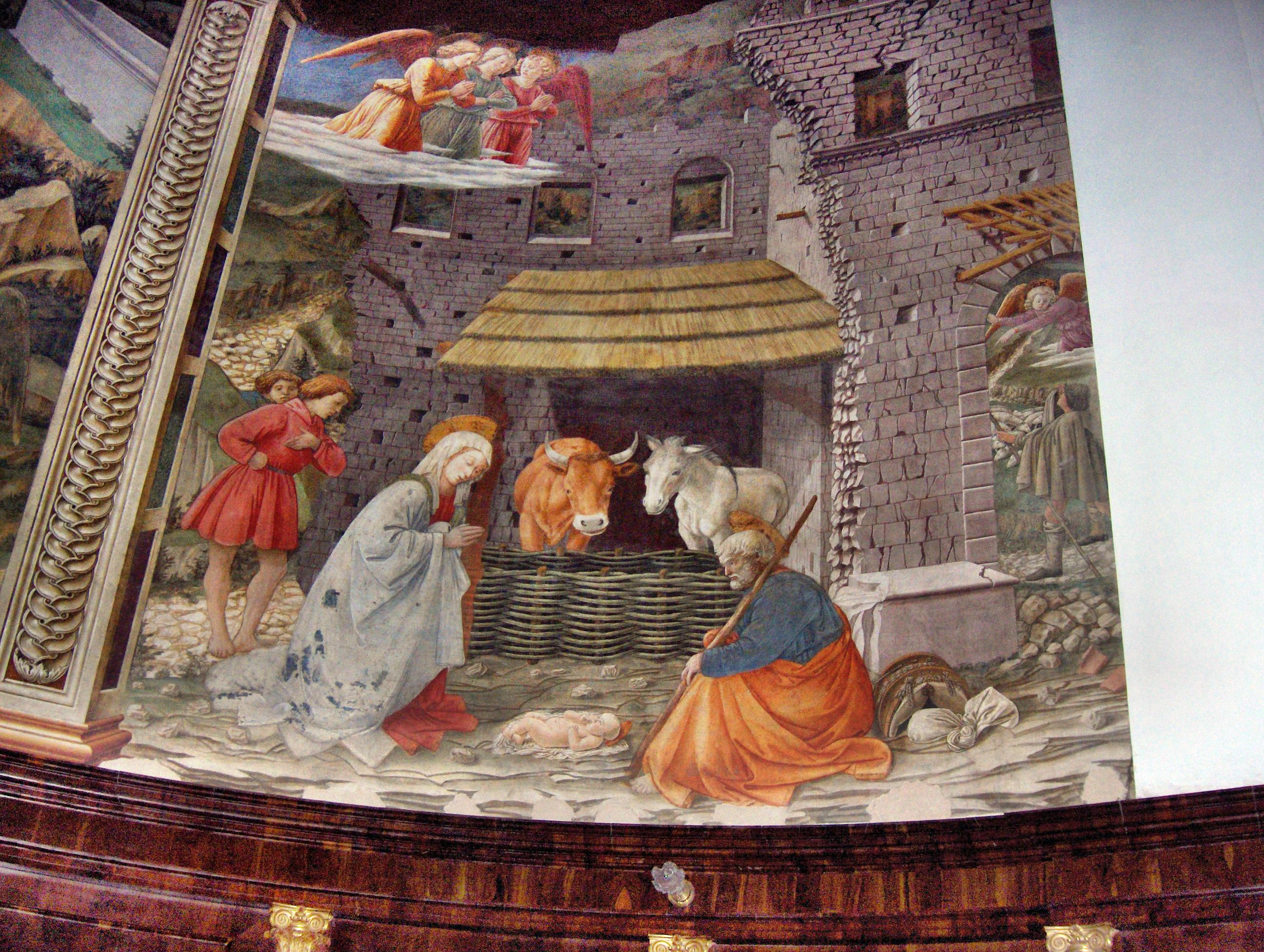 "Nativity", fresco began by Filippo Lippi but almost entirely painted by his helpers Fra' Damiante and Pier Matteo d'Amelia; apse of the cathedral of Spoleto, Italy